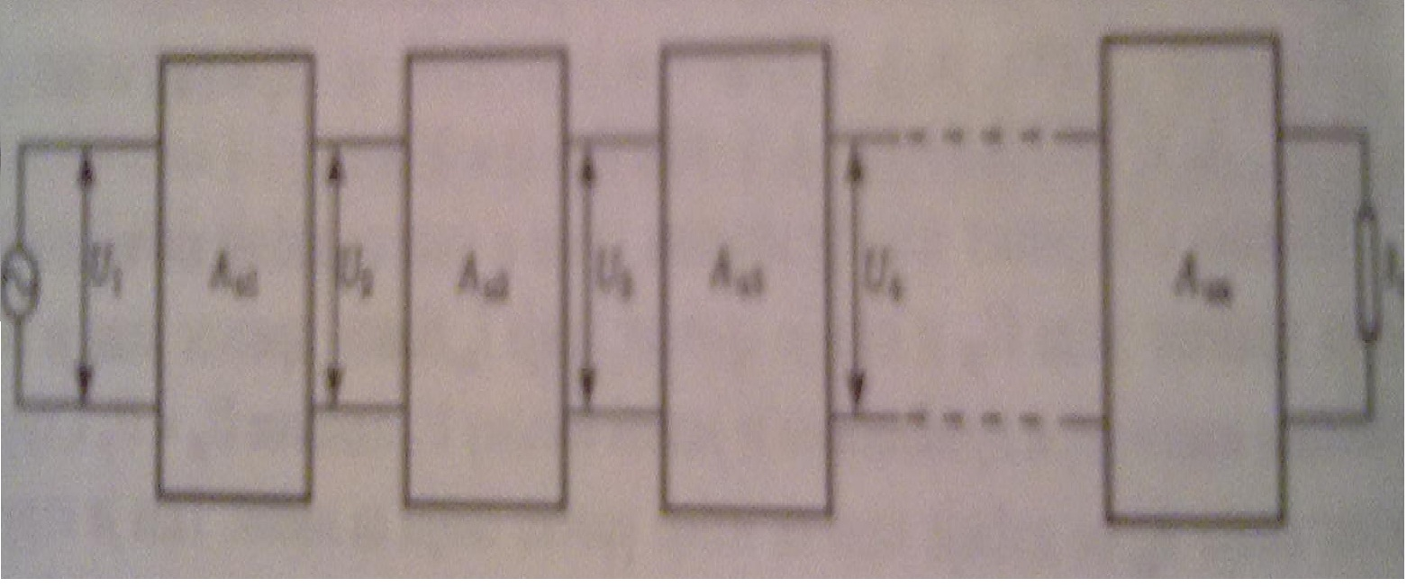 multistage